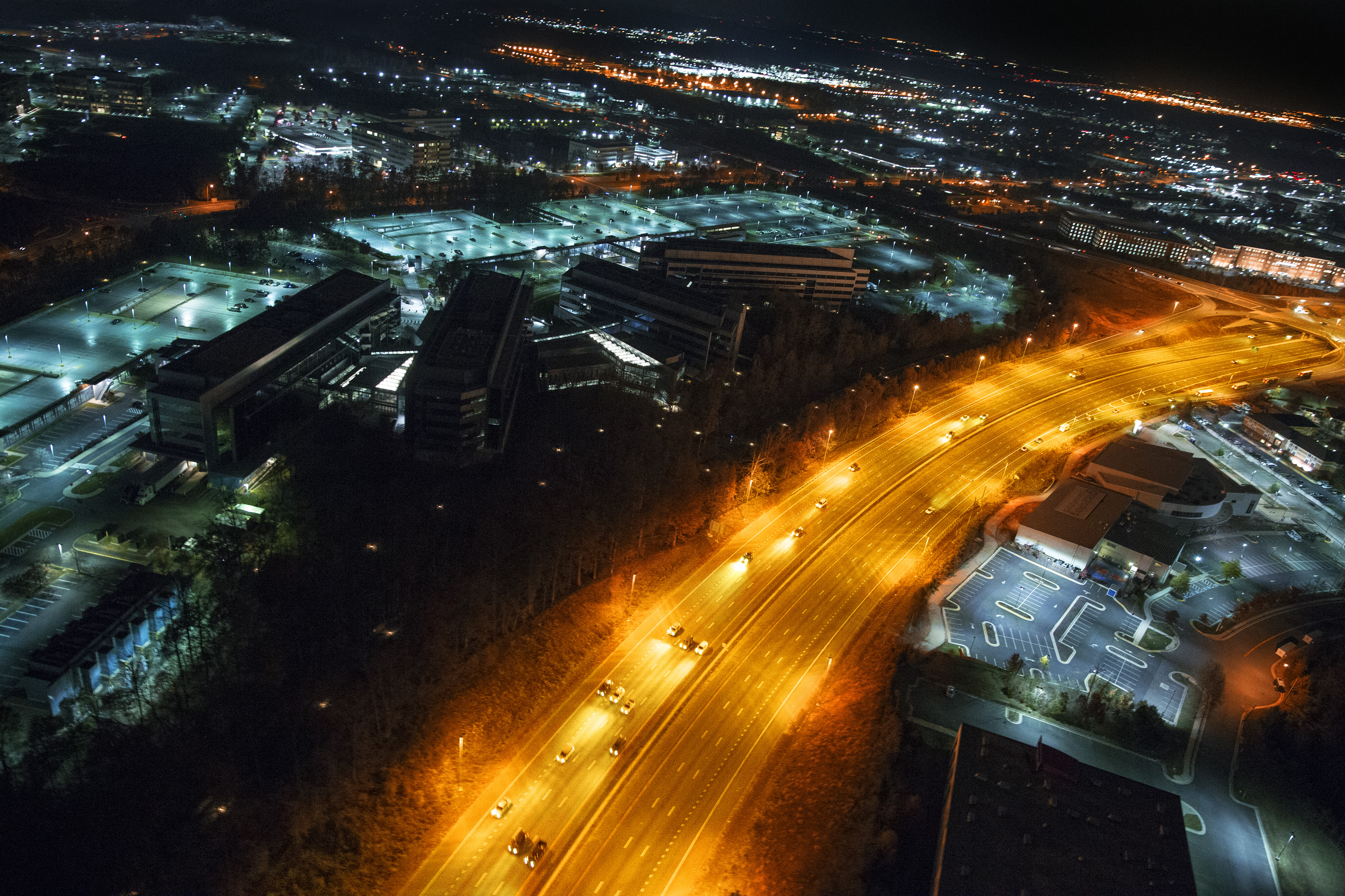 Aerial photograph of the National Reconnaissance Office by Trevor Paglen. Commissioned by Creative Time Reports, 2013.